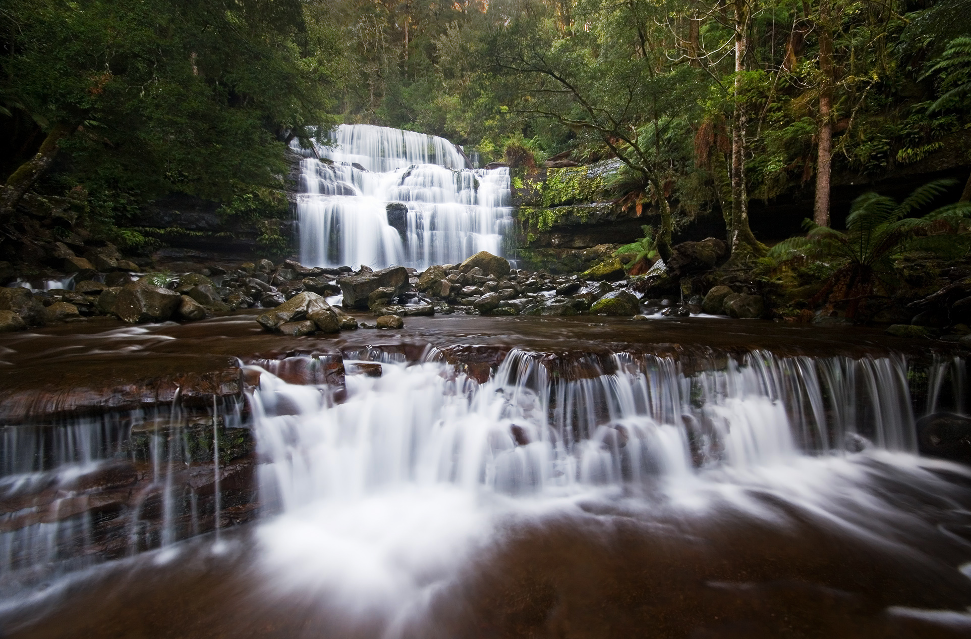 Liffey Falls, Liffey, Tasmania Camera data Camera Canon EOS 400D Lens Sigma 10-20mm F4-5.6 EX DC HSM Filter 4x ND Filter and Circular Polarizer Focal length 10 mm Aperture f/9 Exposure time 1.6 s Sensivity ISO 100